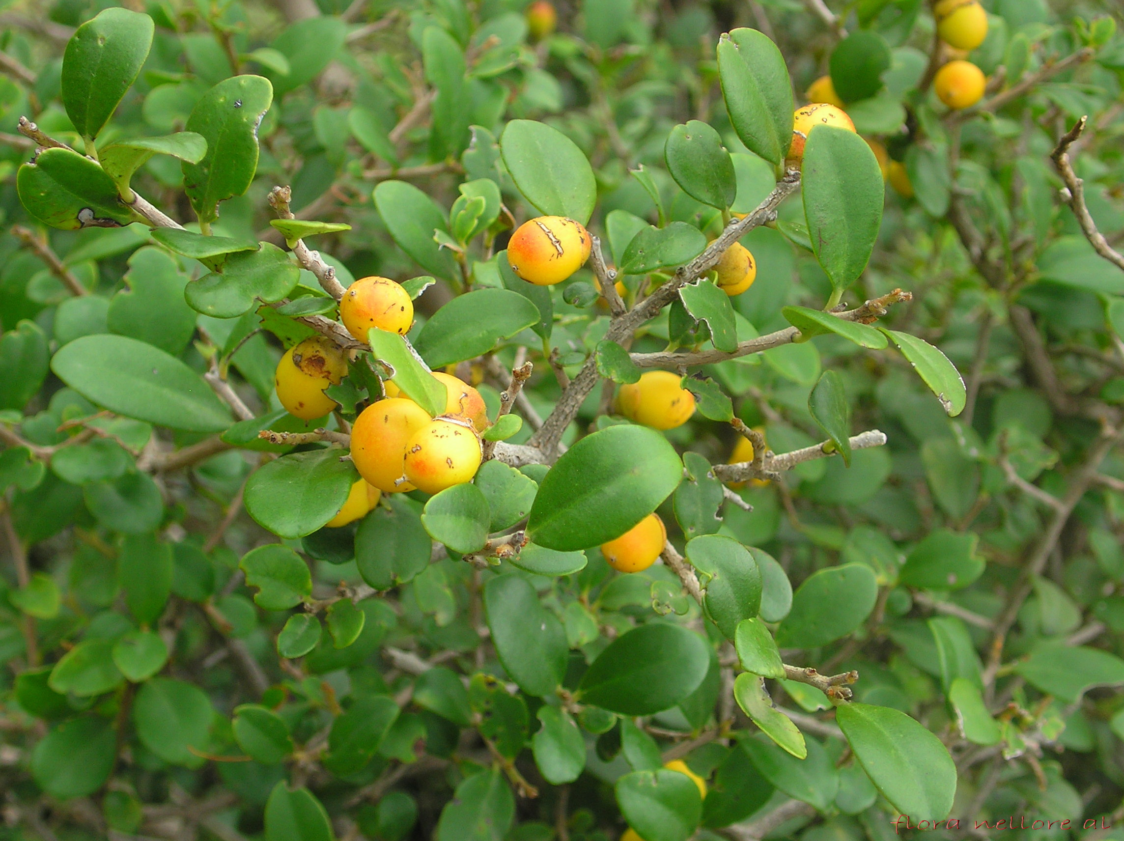 Family: Ebenaceae Distribution: Common in scrub jungles. Found in Peninsular India, Sri Lanka and Malaysia. Common name: Ooti. Small trees 3-5 mts tall, bark thin smooth black, Leaves elliptic-obovate,emarginate, base cuneate; coriaceous, Flowers 2-3 mm across, white in axillary fascicles, Fruit a berry, subglobose, yellow red on ripening, 2-3 seeded. Fruits are eaten, Wood is of low quality, used to make agricultural instruments.